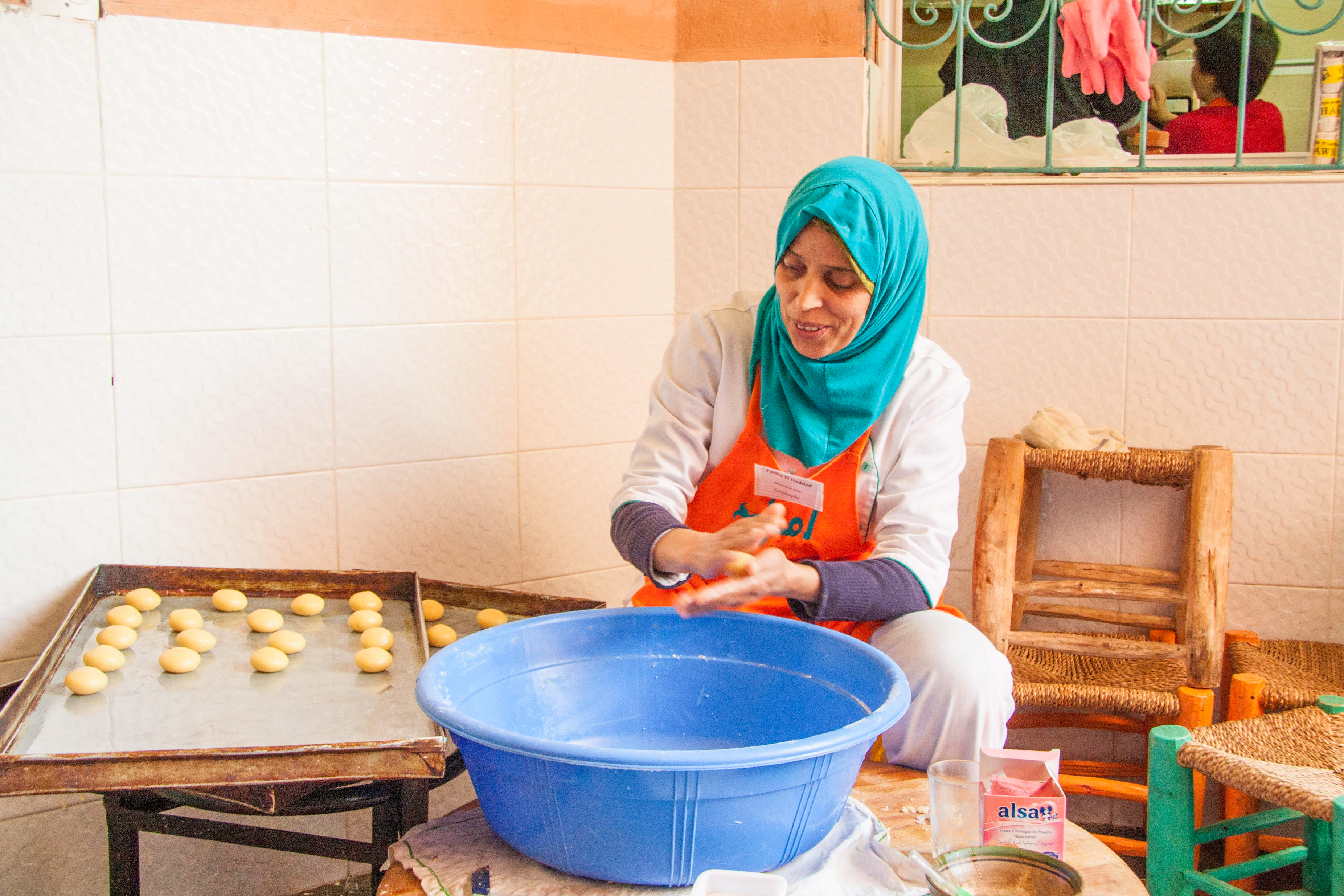 Amal Women's Training Center and Moroccan Restaurant culinary teacher making ghoriba (a traditional Moroccan pastry) in the center's kitchen